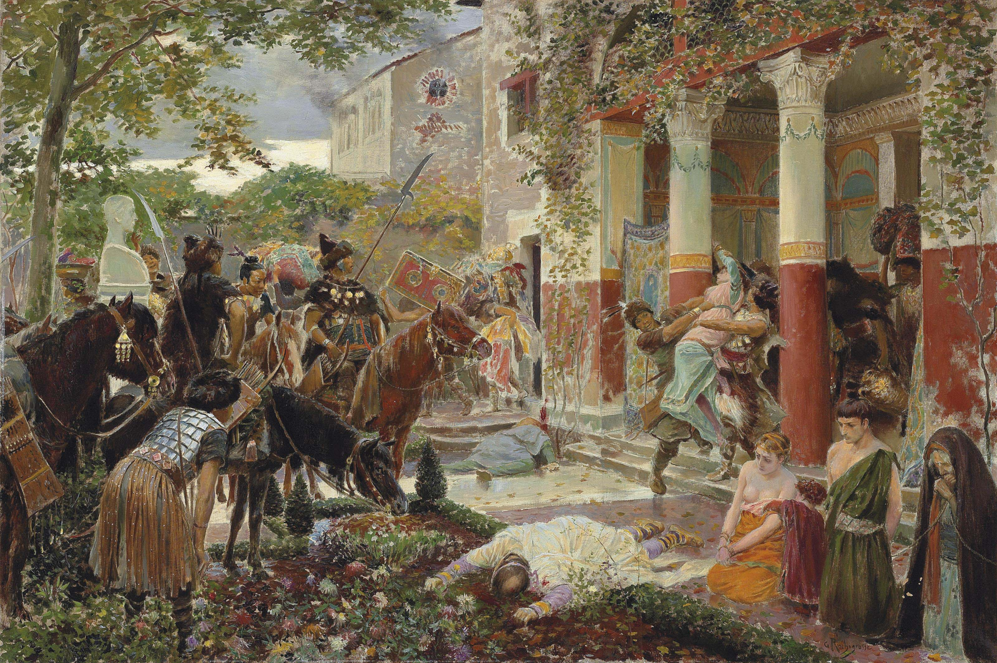 Roman villa in Gaul sacked by the hordes of Attila the Hun. Signed 'GRochegrosse' (lower right).